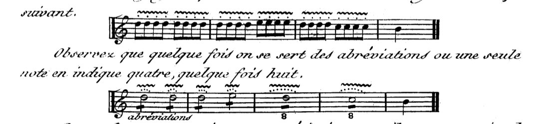 Typical graphic mark for the "tremolo" in string instruments for the classical period.